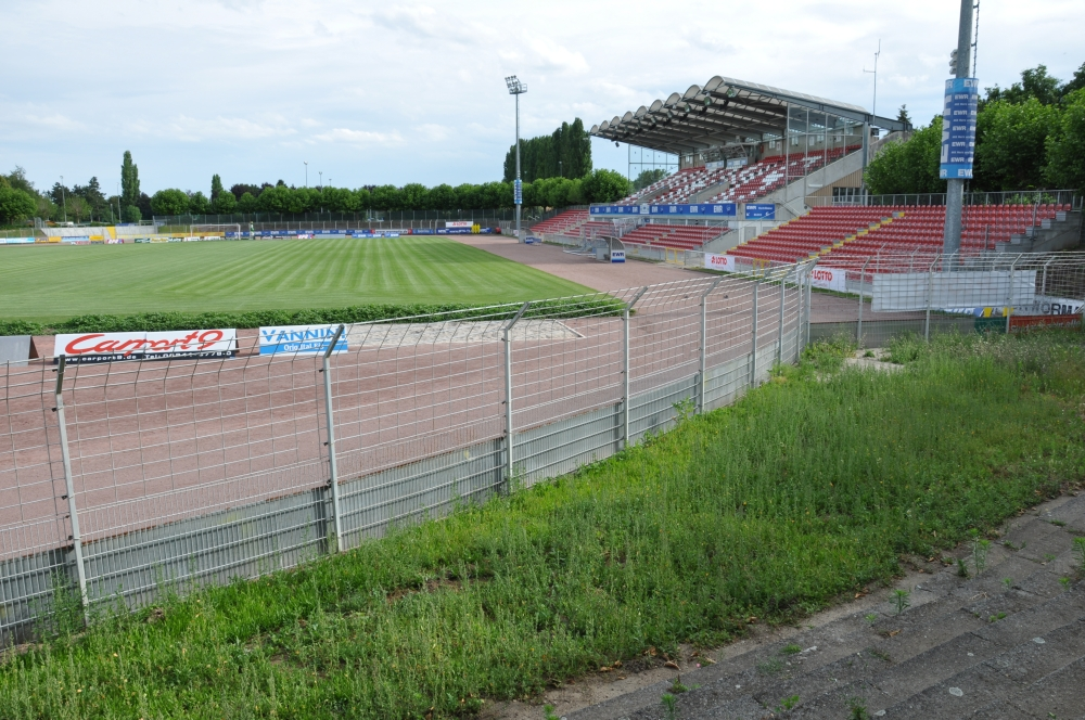 Wormatia-Stadium in Worms, Germany. View from North Stand to South and Main Stand after renovation in 2008.